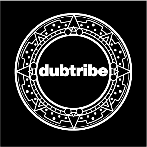 dubtribe mandala logo